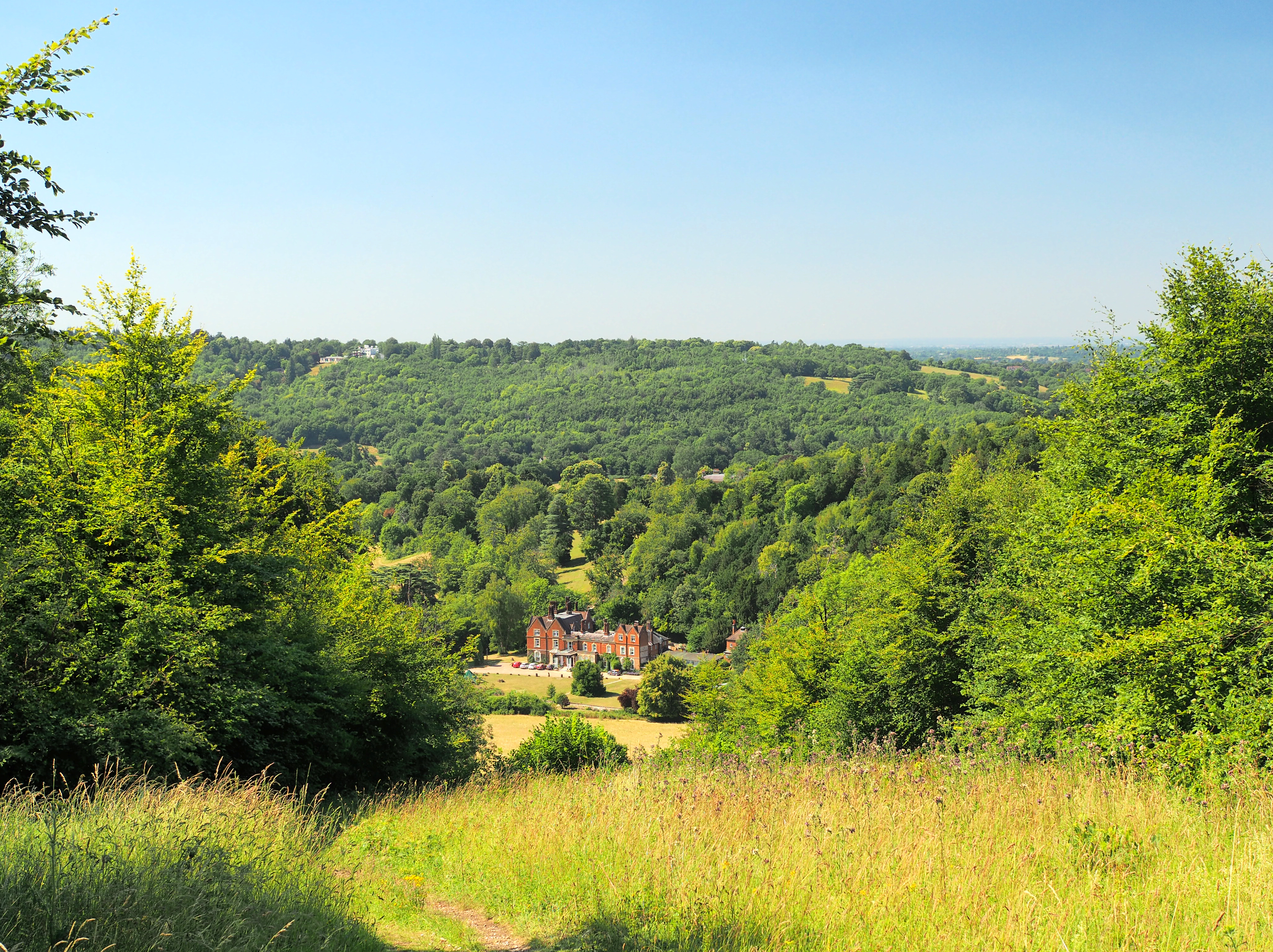 Box Hill, Juniper Hall view